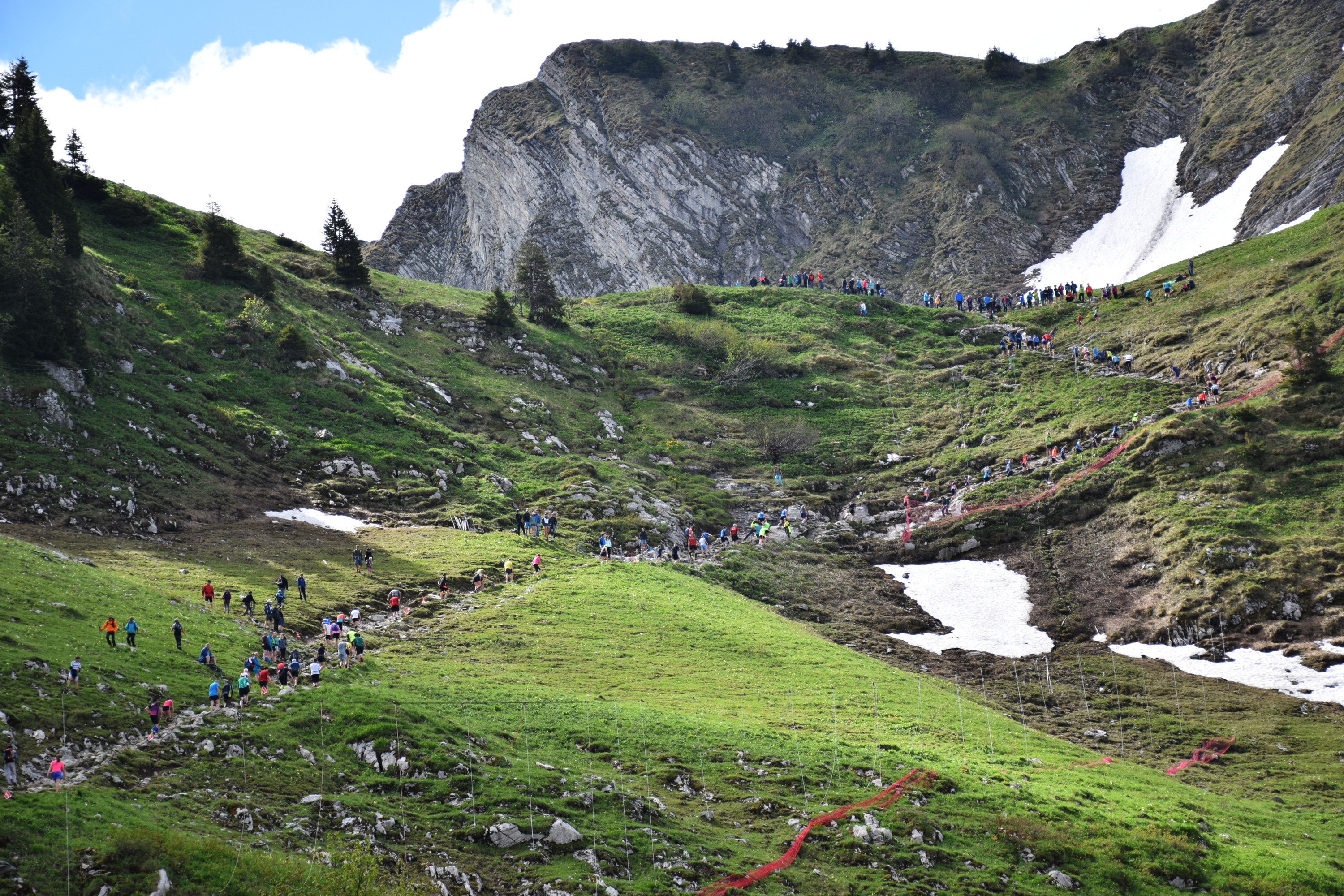 Runners reaching the Bonnefontaine plateau at the mountain run Neirivue-Moléson 2019